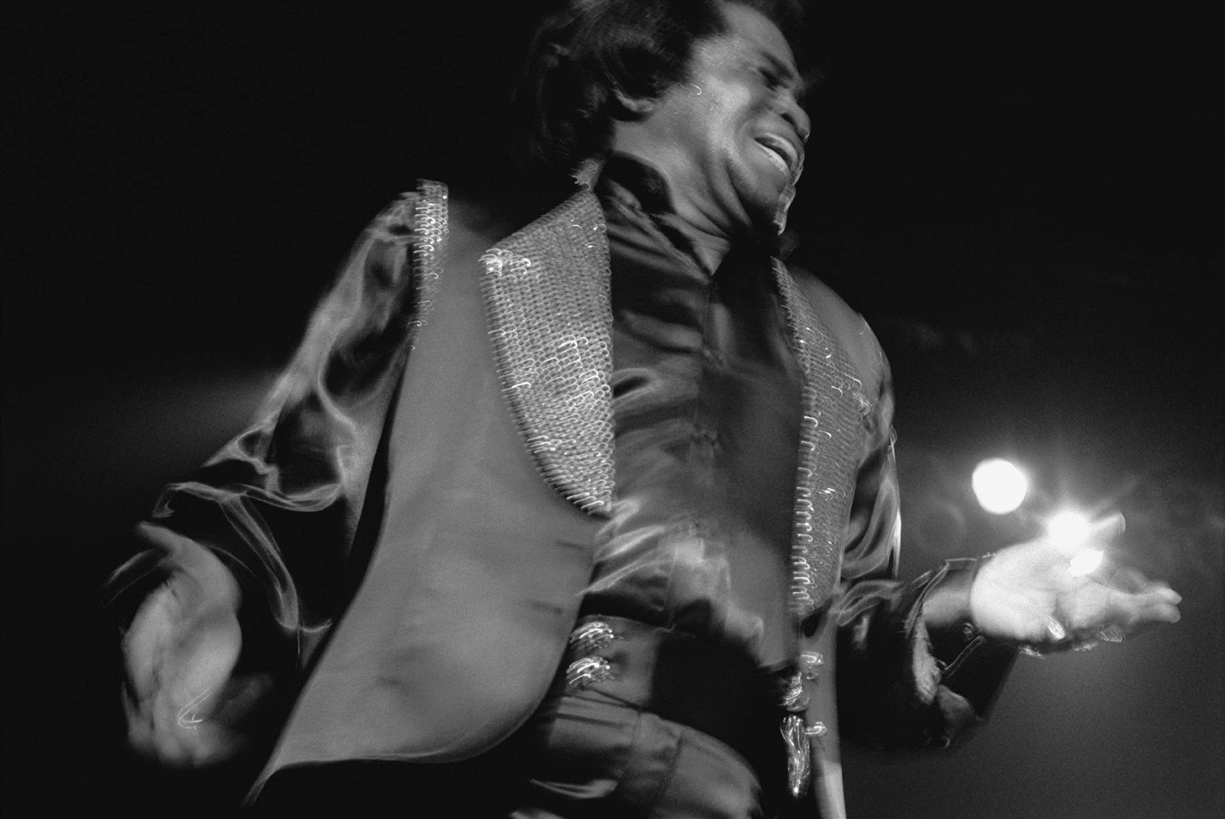 James Brown in Bremen/Germany